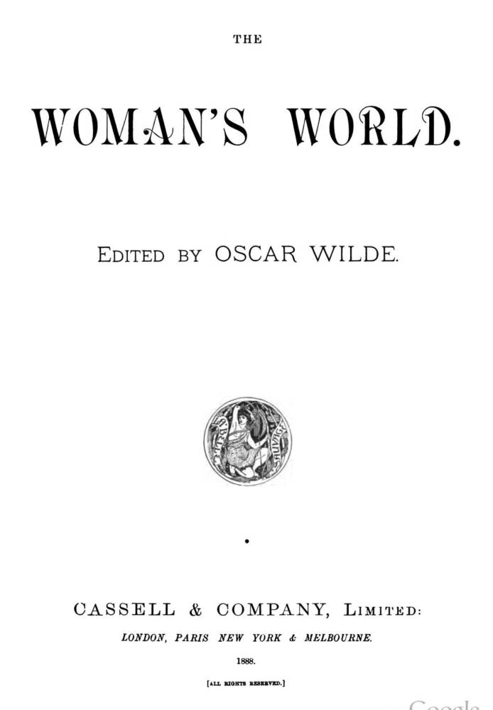 Front page of The Woman's World 1888 volume, published by Cassell & Co. and edited by Oscar Wilde. Trade marked in the center : La Belle Sauvage (London).